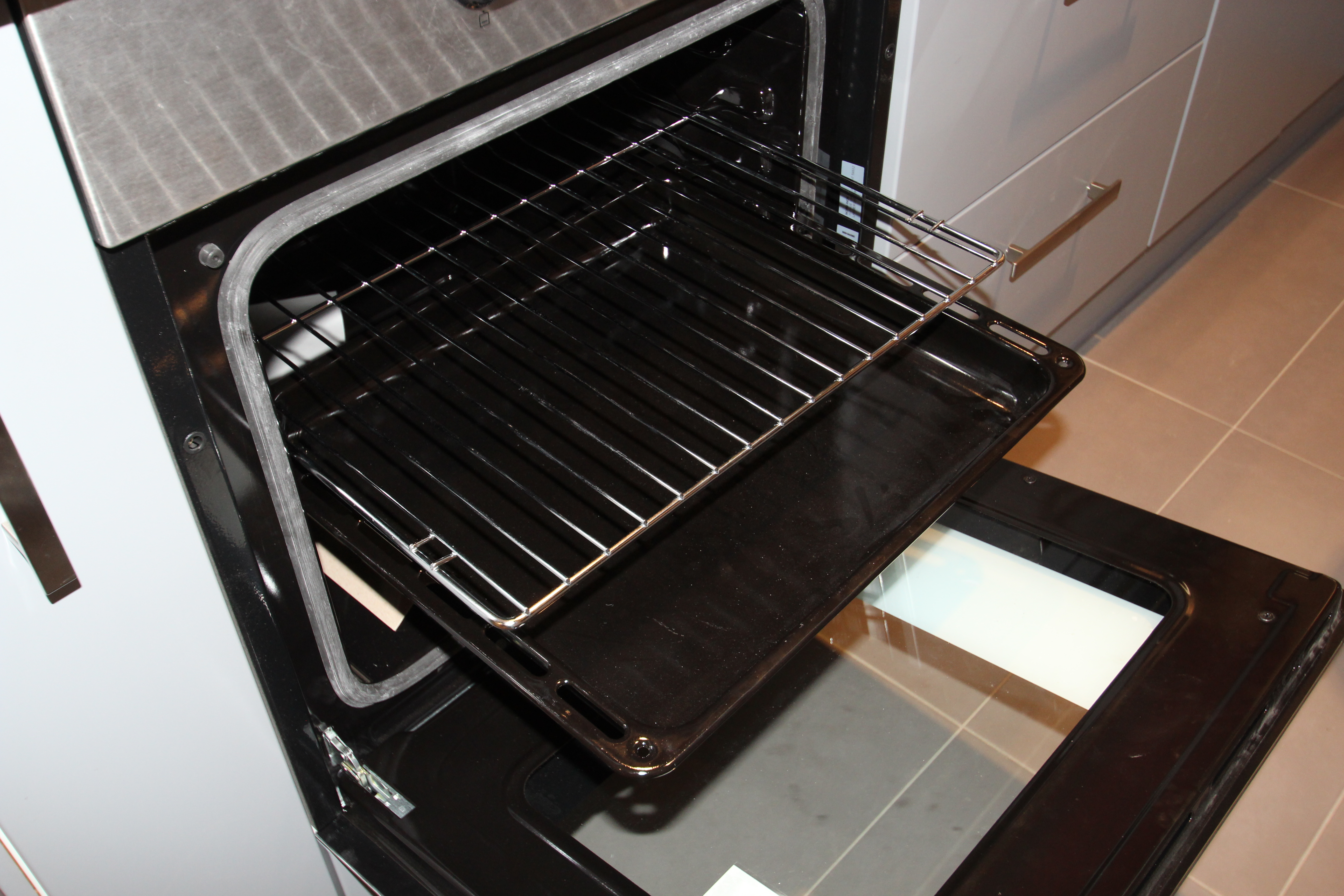 Hardware store Leroy Merlin in Massy, Essonne, France.